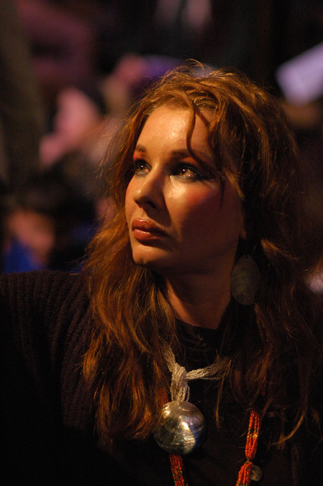 Natacha Atlas